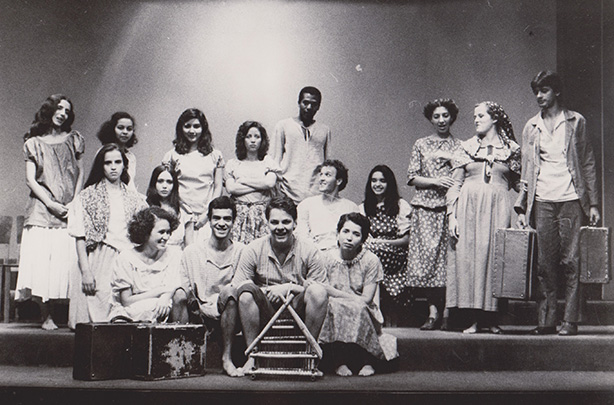 "Girança" (1985), de José Luiz Ribeiro, é uma das peças mais importantes do repertório do Divulgação.